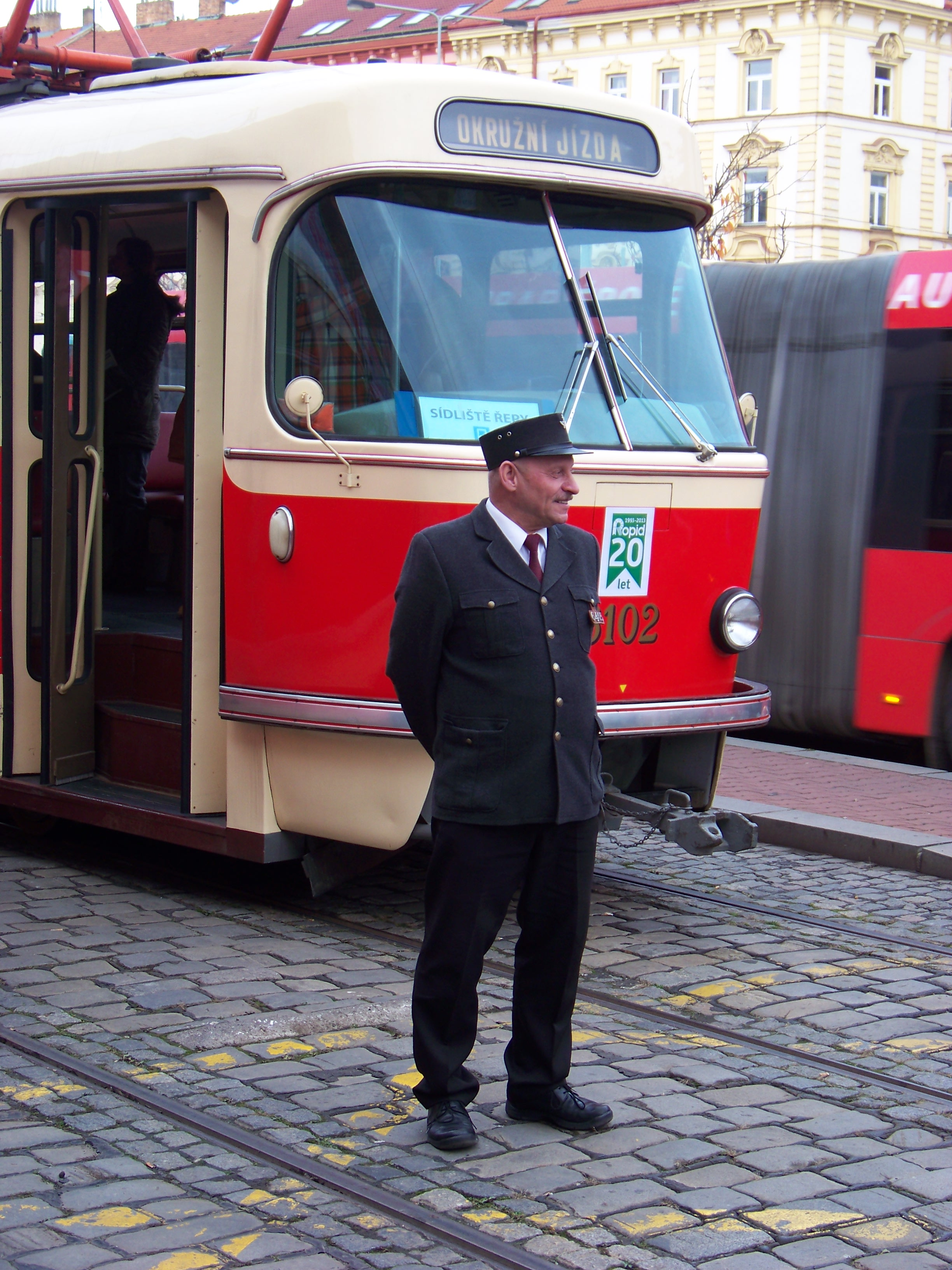 Prague-Smíchov, Czech Republic. Smíchovské nádraží, a tram of a nostalgic line.